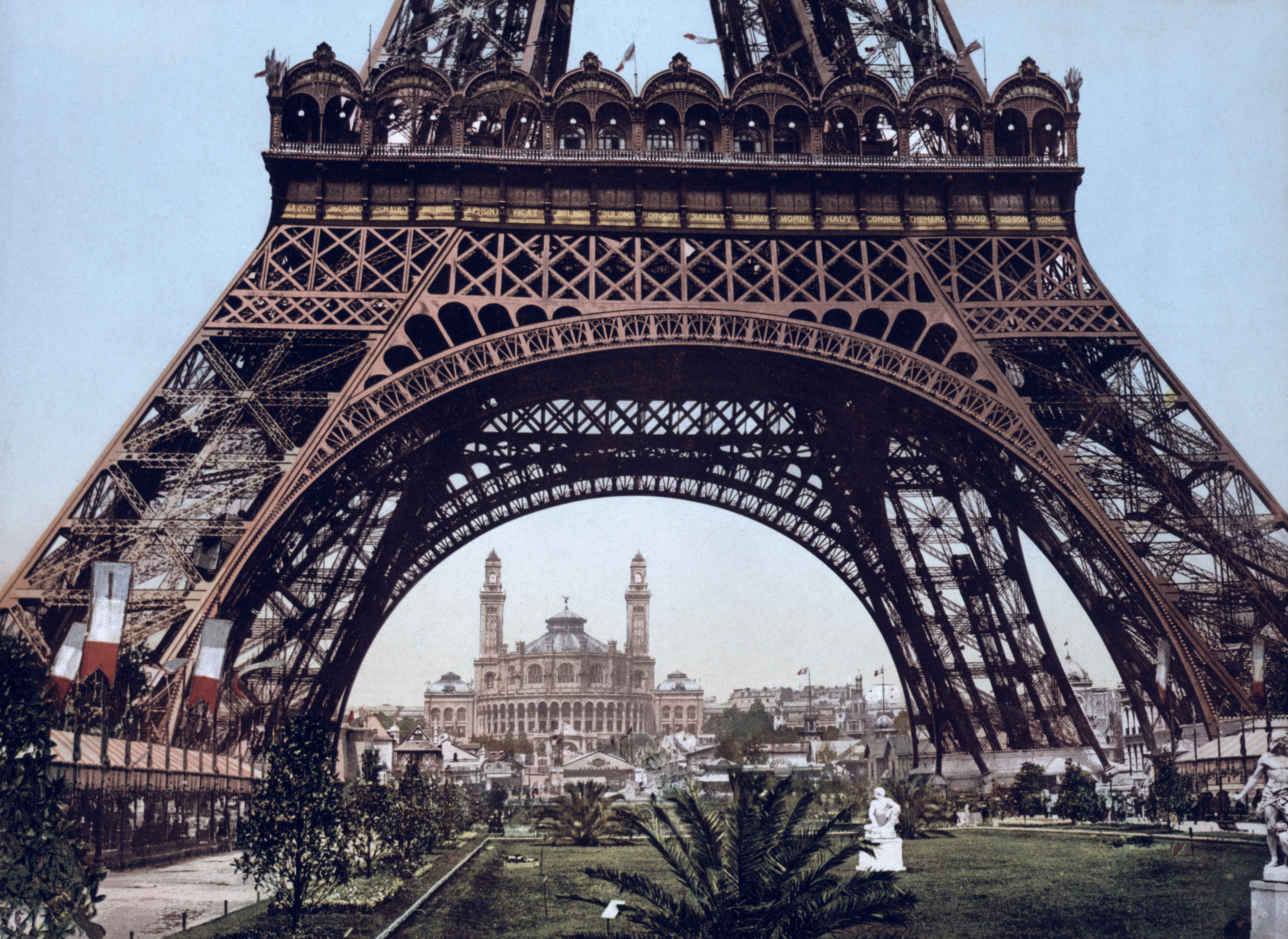 Eiffel Tower and the Trocadero, Exposition Universal, 1900, Paris, France. 1889